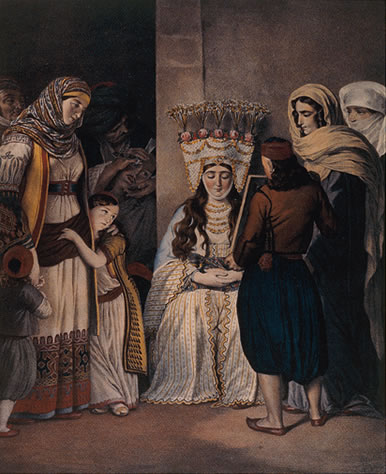 Wedding in Athens